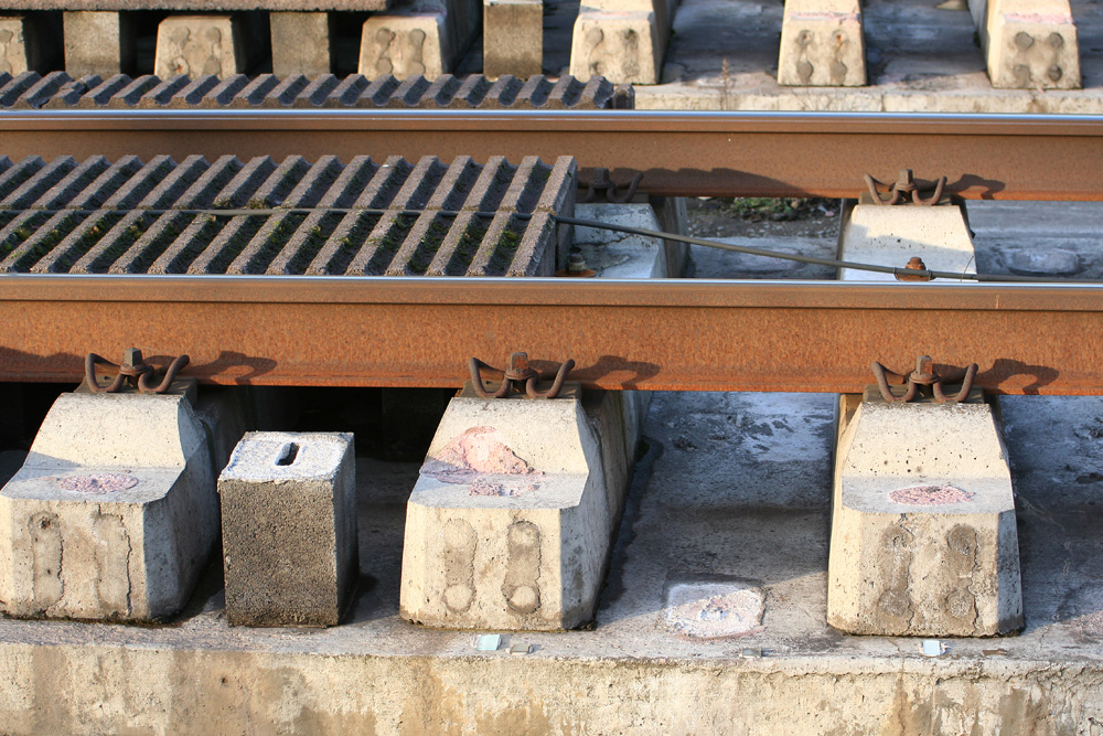 Slab track on the Hannover-Berlin high-speed railway line, near Gardelegen